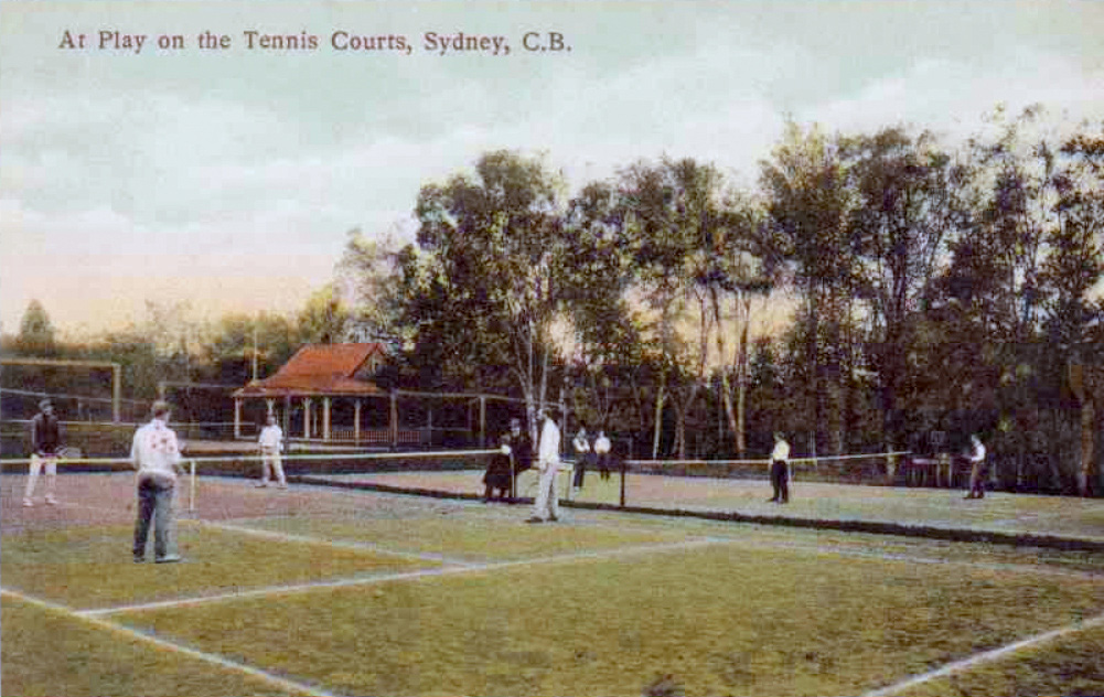 This is a Poastcard dating from 1908, of Cromarty Tennis Club, a private tennis club situated in the community of Sydney, now part of Nova Scotia's Cape Breton Regional Municipality. Cromarty Tennis Club is one of the oldest tennis clubs in Nova Scotia, established at its present location along Reservoir Brook (formerly Wentworth Creek or Sullivan's Brook), Sydney in 1902. The caption on the postcard reads: "At Play on the Tennis Courts, Sydney, C.B." Please notice the 1903 Club House and the two (possibly) grass courts (Court 3 and Court 4 (foreground). Eight Players And One Umpire Or Line Judge. 25 September, 1908. According to Scott Robson, Curator, History Collection, Nova Scotia Museum, the base photo was b&w, and a publisher might have presumed that the ground was grass even if not. The texture is not clear in the original postcard image. The book "Post Cards of Cape Breton Island", by Ken C. MacDonald (printed by Scotia Stamp Studio, Halifax, about 1988), dates all postcards published by Albert M. MacLeod as between 1906 and 1911. The tennis court image is on MacDonald's list for MacLeod's cards that were printed in Belgium, between 1906 and 1909.